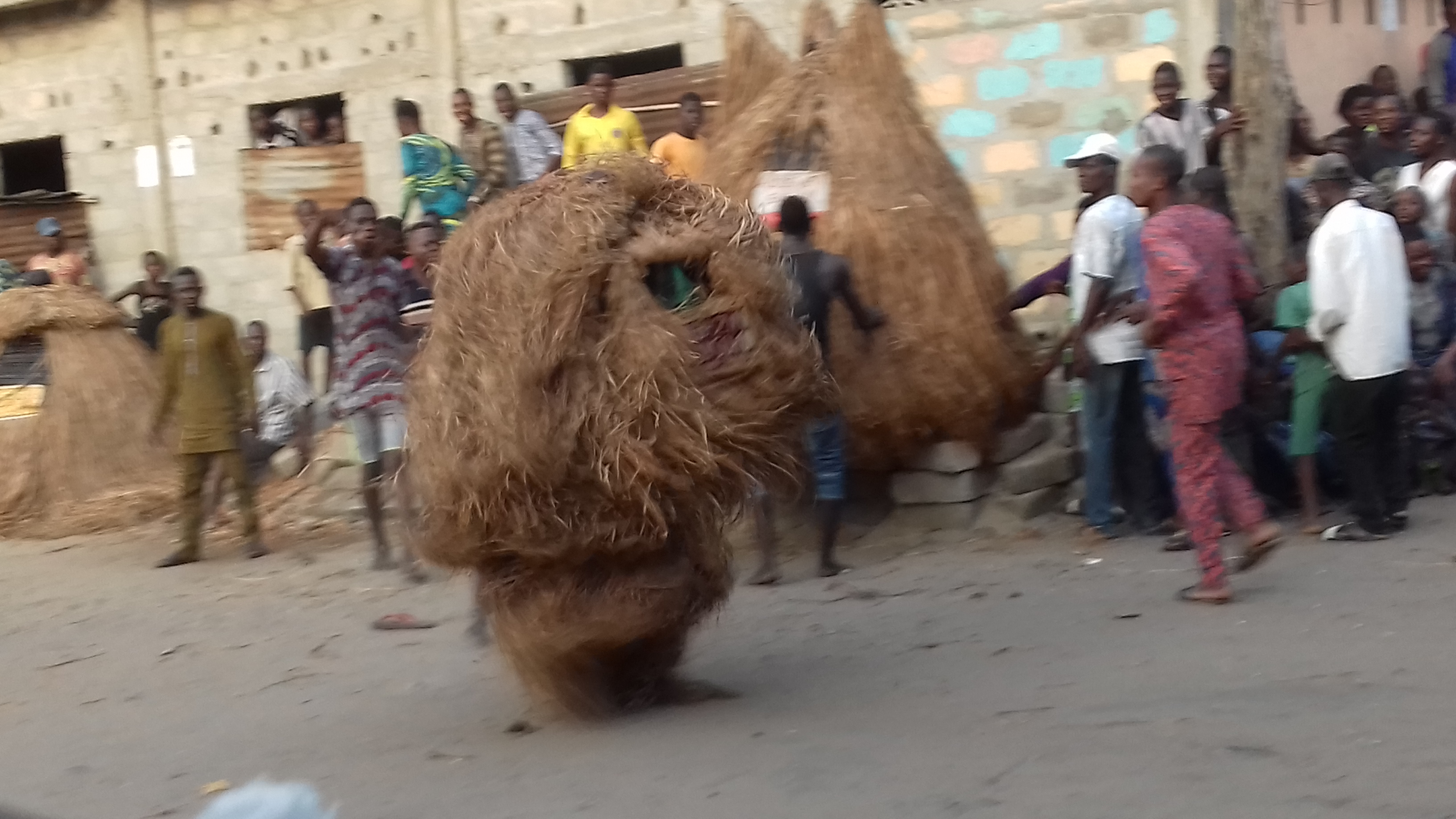 Ritual of Zangbeto in Benin. After the family ceremonies in this community, the Zangbeto ritual still called "Zangbeto Houn" is the last thing to happen. This time, I managed to shop some better moments of this event. It was in a small market of Godomey Hloulacomey.